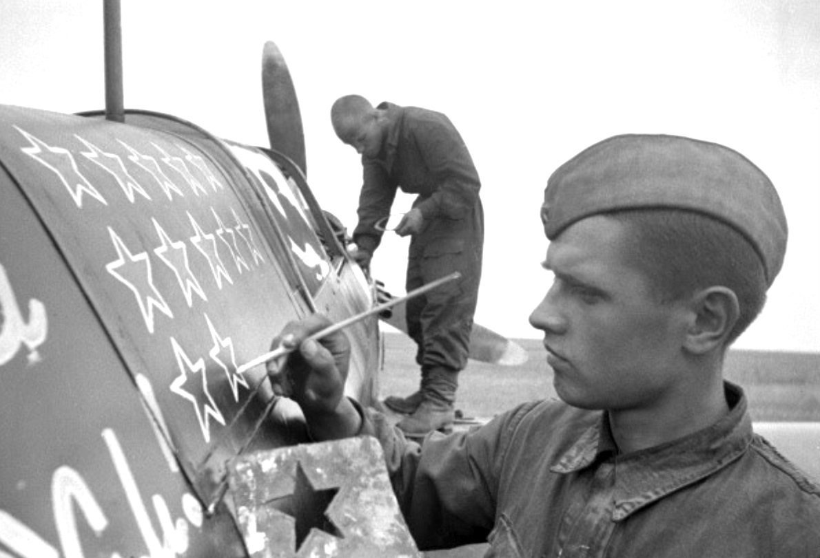 “One more enemy plane shot down.”.. A soldier stencils stars on the side of the plane. A mechanic inspects the plane. The South-western front.